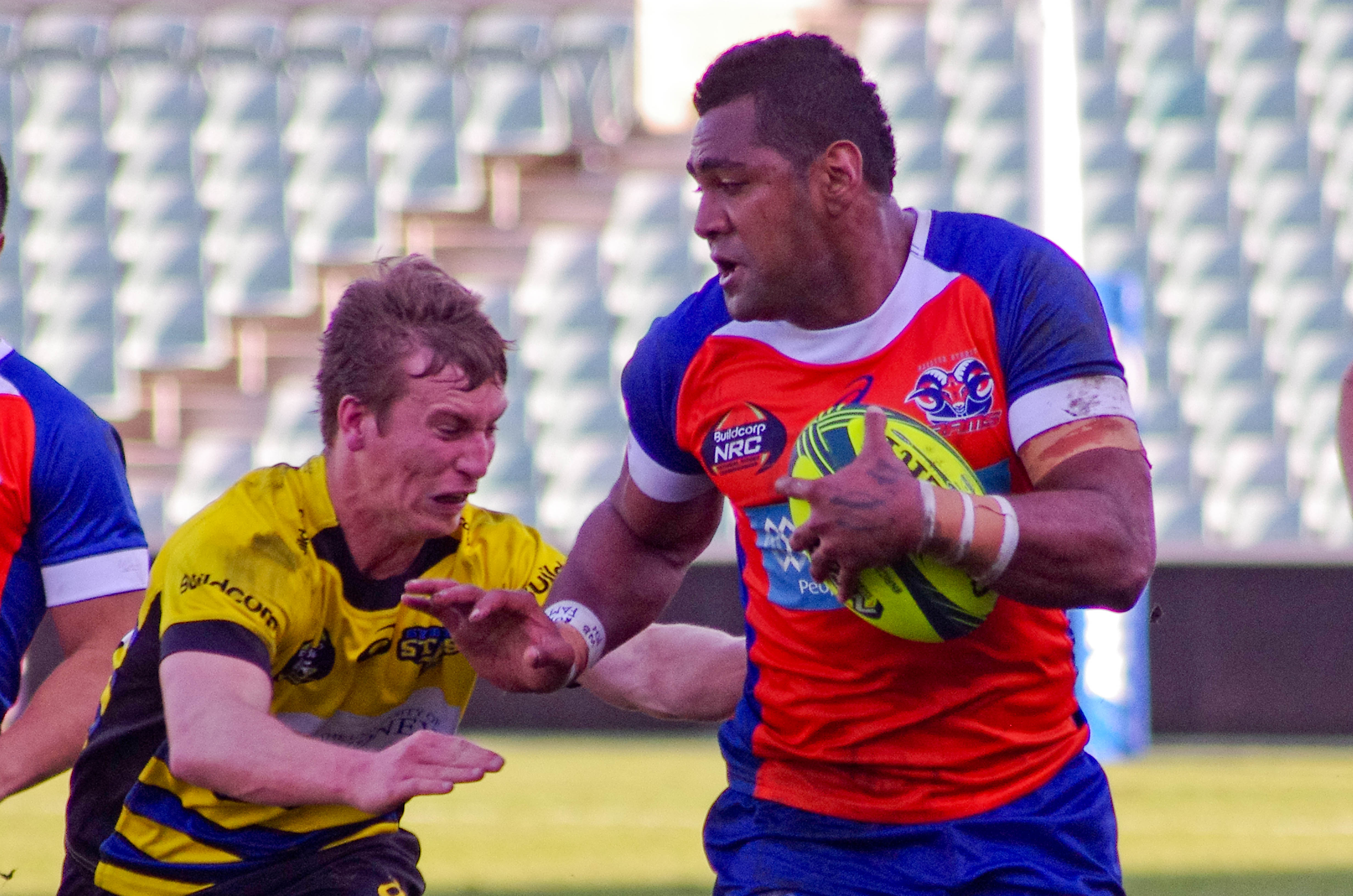 Fijian rugby league and rugby union player Taqele Naiyaravoro.